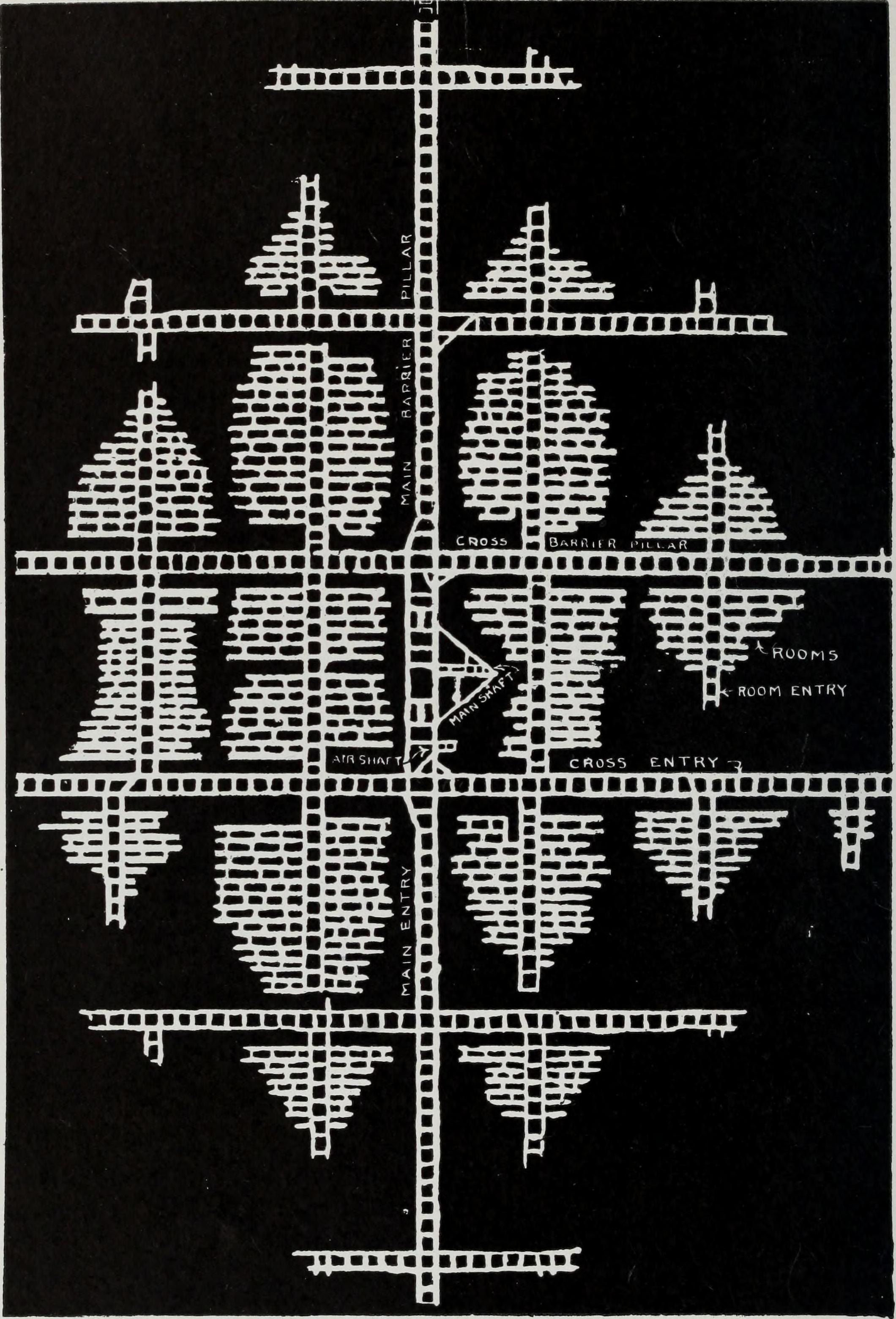 Title: Coal mining in Illinois Year: 1915 (1910s) Authors: Andros, S. O Illinois State Geological Survey University of Illinois (Urbana-Champaign campus). Dept. of Mining Engineering United States. Bureau of Mines Subjects: Coal mines and mining Publisher: Urbana, (Ill.) : University of Illinois Text Appearing Before Image: I I Fig. 15. Shearing the ribs in District VII at intervals of 500 to 600 feet along the cross-entries pairsof room-entries, often called panel entries, are tinned off at aright angle to the cross-entries. The solid pillar of coal be-tween the cross-entry and the first room, called the cross-barrier pillar, in Illinois varies in width from 20 to 150 feetand averages 56. The main barrier-pillar which is the coalleft between the main entry and the ends of the rooms turnedoff those room-entries which are nearest to the main entry,varies in width from 20 to 150 feet, averaging 68. The num- Text Appearing After Image: Fig. 16. Plan of panel mine MINING PRACTICE 85 ber of rooms on a room-entry varies in Illinois from 12 to 35and averages 23. The obvions advantage of a true panel system is thateach panel is surrounded on all sides by a pillar of solid coaland is a separate unit in operation. A squeeze occurring inany panel is confined by the barrier pillars, if large enough.The ventilating current can be regulated so as to supply airaccording to the needs of each panel and pillar-drawing canbe more advantageously practiced, thus giving a higher coal-recovery. In Illinois some of the newer mines were opened on thepanel system and some of the older mines which had beenunsuccessful in preventing squeezes under the unmodifiedroom-and-pillar system have changed their system to panel.There are, however, only a few mines operating on a truepanel system with proper barrier pillars. In many mines nopanel is maintained but rooms are driven to hole through,the main barrier pillar is gouged, and the cross barrie